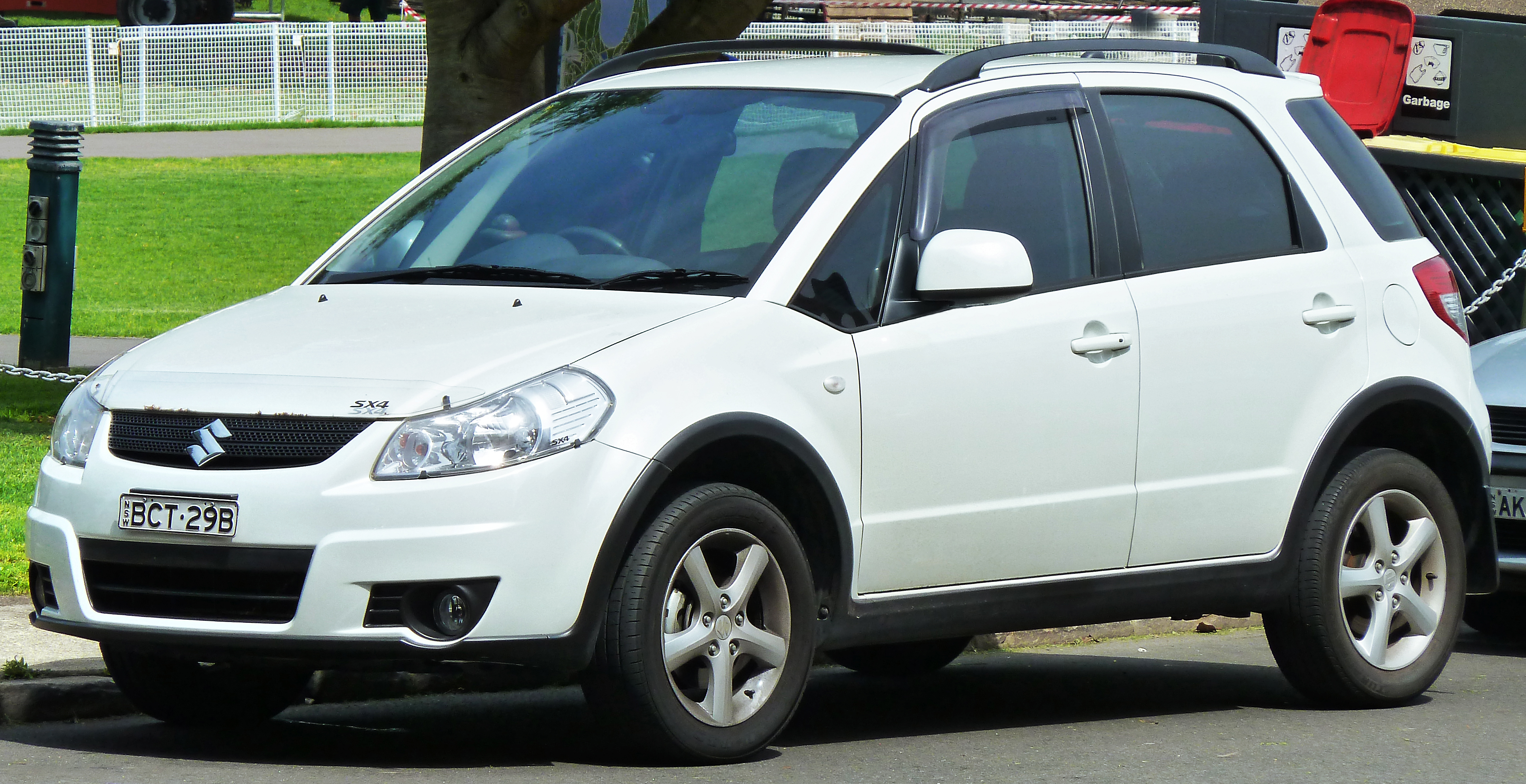 2007–2009 Suzuki SX4 (GYB) hatchback. Photographed in Sydney, New South Wales, Australia.